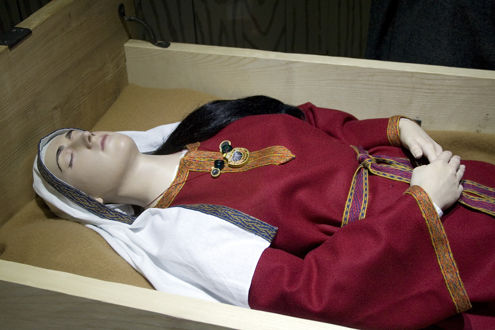 Replica of the "Saxon Princess" bed burial at Kirkleatham Museum